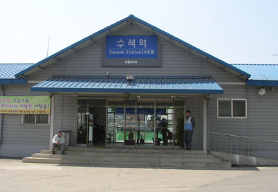 Susaek station in GyeongEui line, KNR